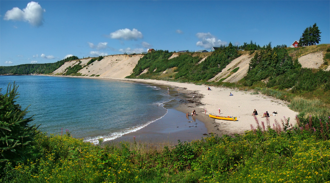 Sandy Cove Beach, Eastport Peninsula, Central Newfoundland, Canada. Who said white sand beaches can be found only under the tropics?